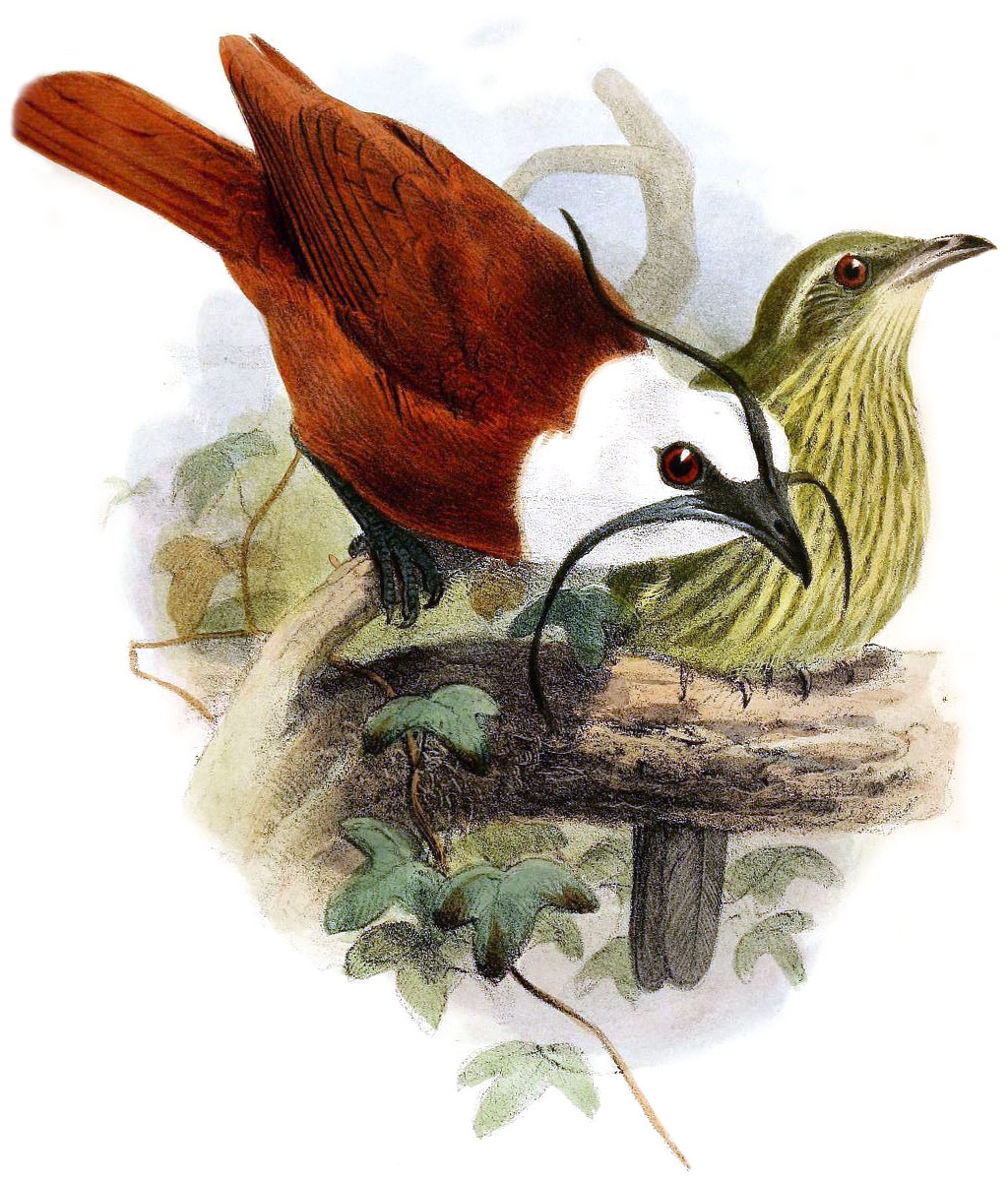 « Chasmorhynchus tricarunculatus » = Procnias tricarunculatus (Three-wattled Bellbird) - male (left) and female (right)